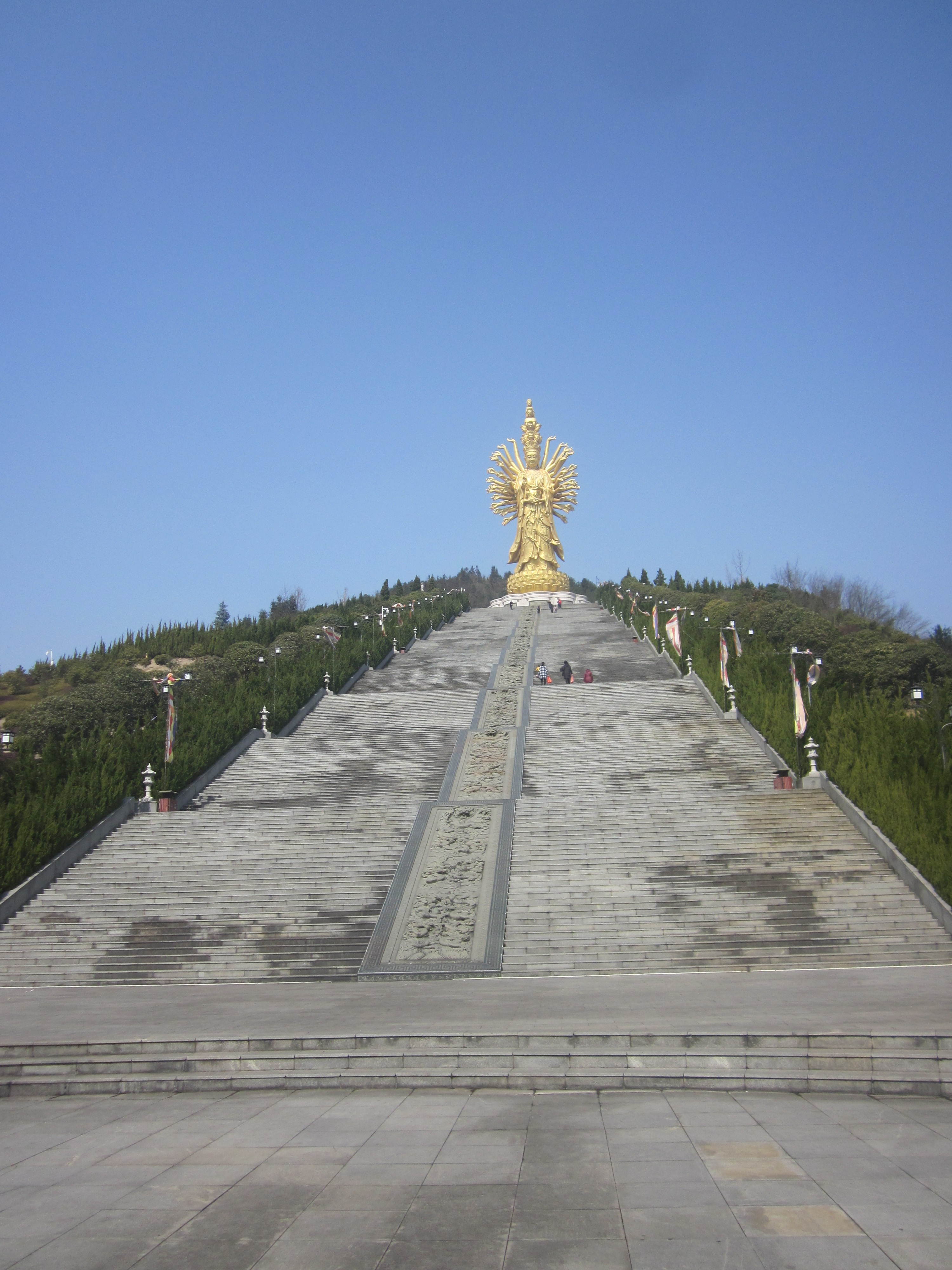 Thousand-armed and eyed Guanyin in Miyin Temple.